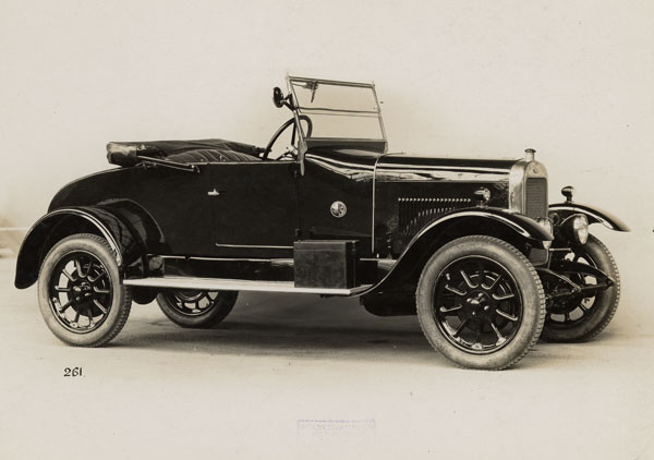 Clyno 12/35 hp Two Seater Motor Car, Wolverhampton, 1928